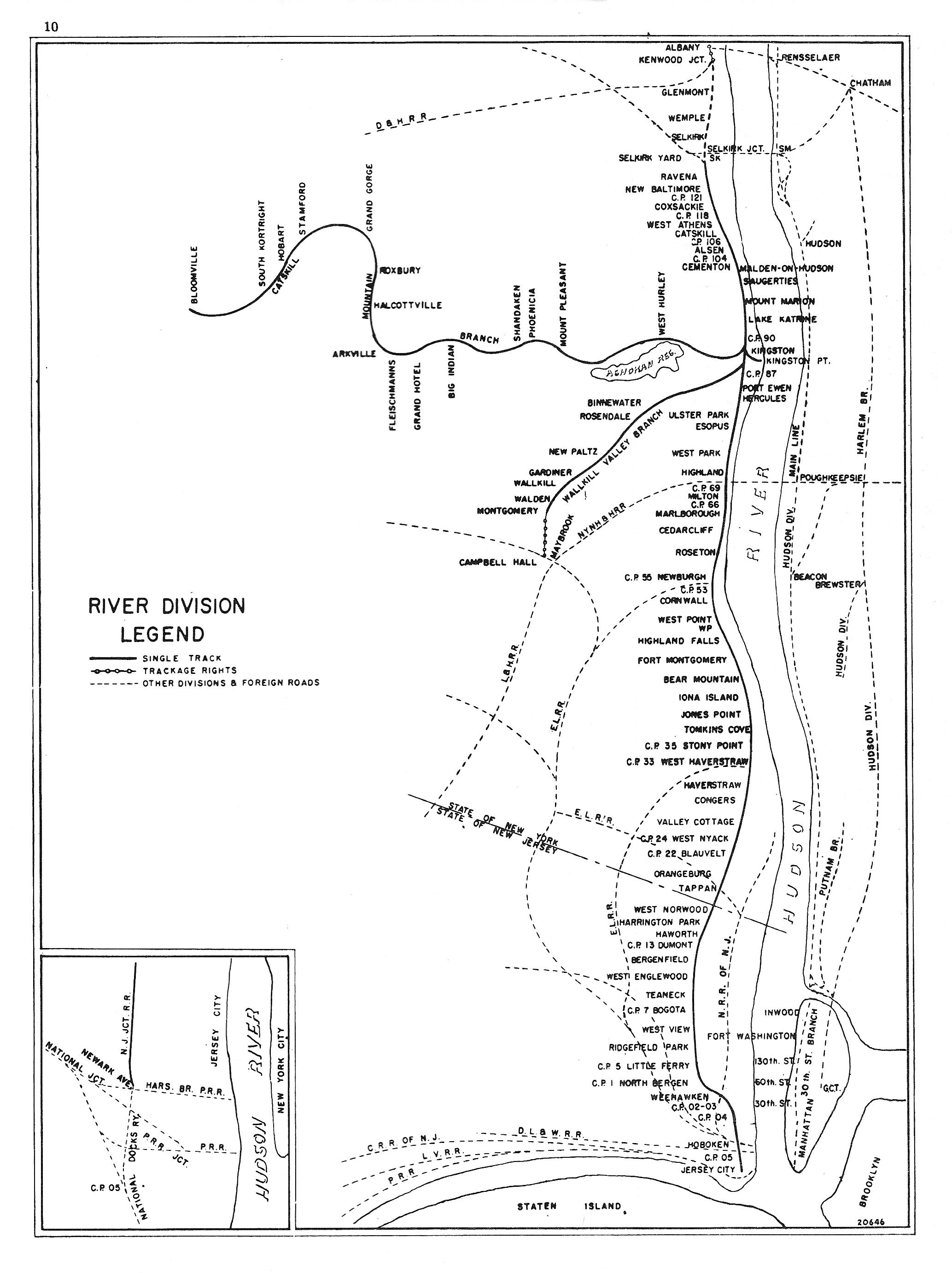 Diagrammatic map of New York Central's River Division on the eve of the Penn Central merger, from Employee Timetable No.22, effective 1967-11-05. Includes today's CSX River Line and Catskills Mountain Railroad.